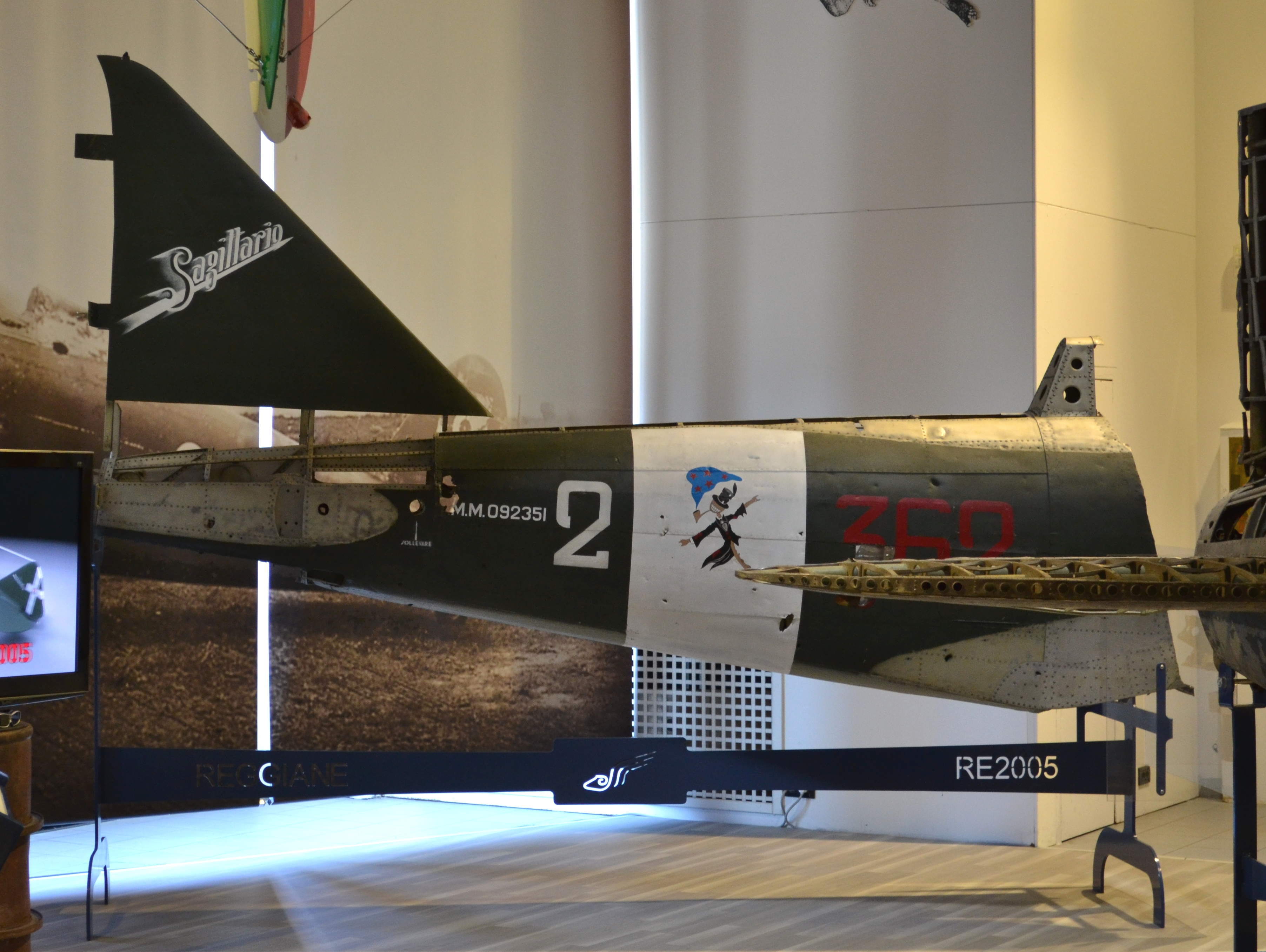 The only surviving fuselage of a Reggiane Re.2005 Italian WWII fighter is on display at the Museo dell'aeronautica Gianni Caproni in Trento, Italy.